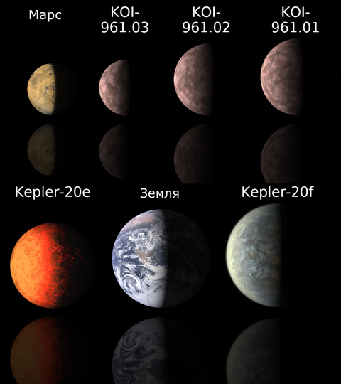 This chart compares the (at the time of their discovery) smallest known exoplanets, or planets orbiting outside the solar system, to our own planets Mars and Earth. Astronomers using data from NASA's Kepler mission and ground-based telescopes recently discovered the three smallest exoplanets known to circle another star, called Kepler-42b, Kepler-42c and Kepler-42d (formerly known as KOI-961.01, KOI-961.02 and KOI-961.03). The smallest of these, Kepler-42d, is about the size of Mars with a radius of only 0.57 times that of Earth. Not long ago, in Dec. of 2011, the Kepler team announced the discovery of Kepler-20e and Kepler-20f -- the first Earth-size planets ever found outside the solar system. All five of these small exoplanets have toasty orbits close to their stars, and do not lie in the more temperate habitable zone. The ground-based observations contributing to the Kepler-42 discoveries were made with the Palomar Observatory, near San Diego, California, and the W.M. Keck Observatory atop Mauna Kea in Hawaii.